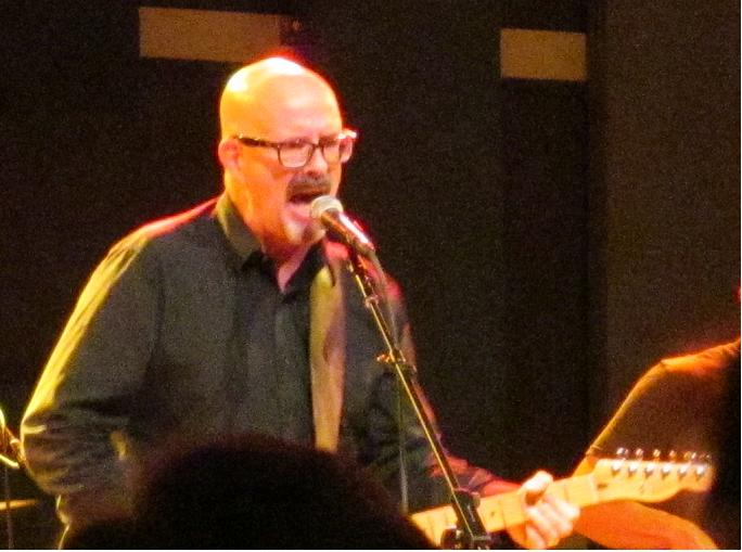 Peter Holsapple at World Cafe Live in Philadelphia 2012 08 31